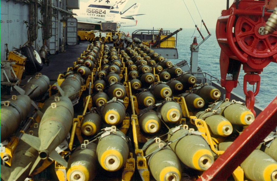 The so-called "bomb farm" abreast the island of the aircraft carrier USS Kitty Hawk (CVA-63) during the deployment to Vietnam between 06 November 1970 and 17 July 1971. The bombs are mostly Mk 82 227 kg (500 lb) bombs. In the background three aircraft of Attack Carrier Air Wing Eleven (CVW-11) are visible: Two North American RA-5C Vigilantes of Heavy Reconnaissance Attack Squadron 6 (RVAH-6) "Fleurs" (BuNos. 156624 and 156625) and a Douglas KA-3B Skywarrior tanker (BuNo. 138915) of Tactical Electronic Warfare Squadron 133 (VAQ-133) "Wizards".